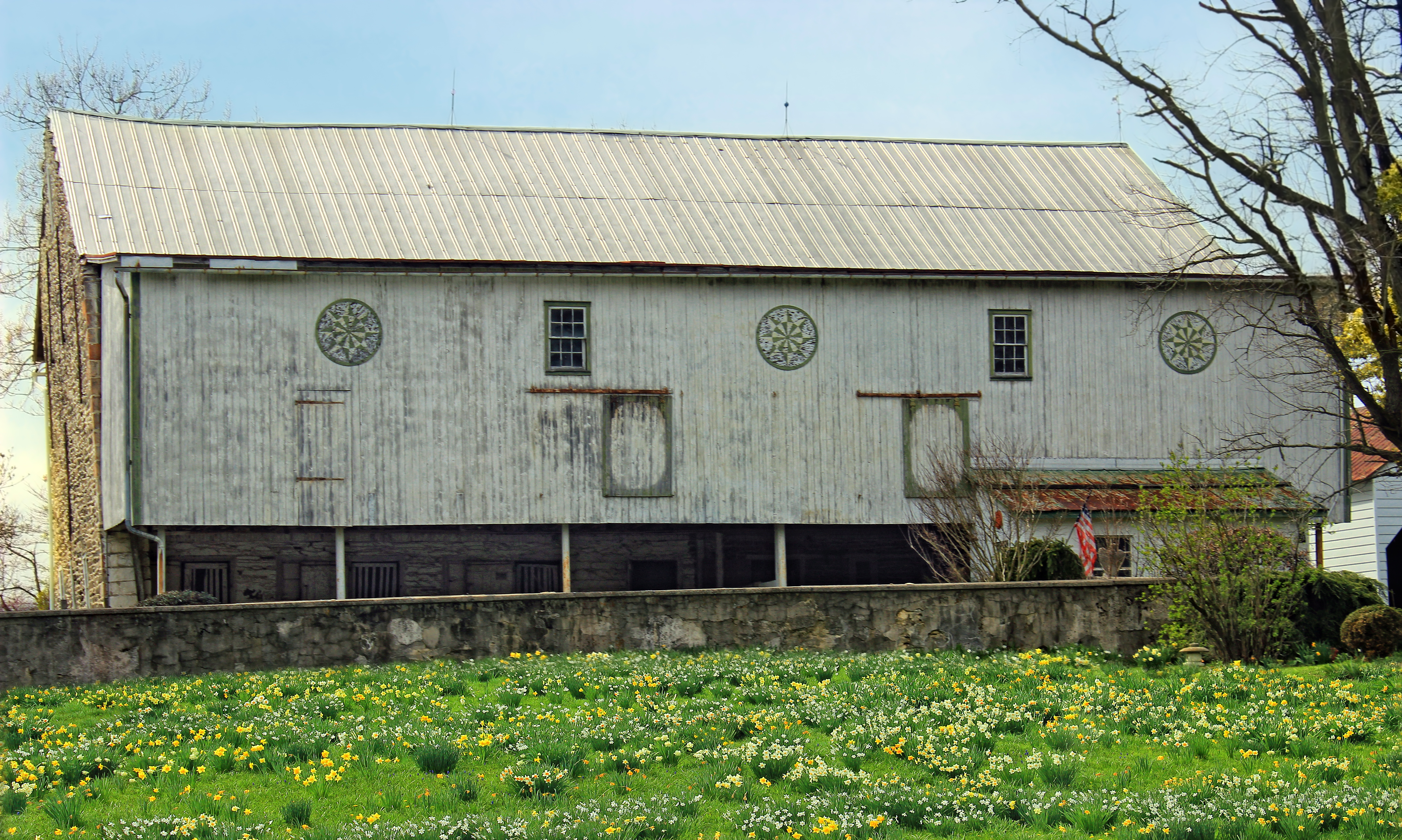 Pennsylvania German–style barn, Albany Township, Berks County.